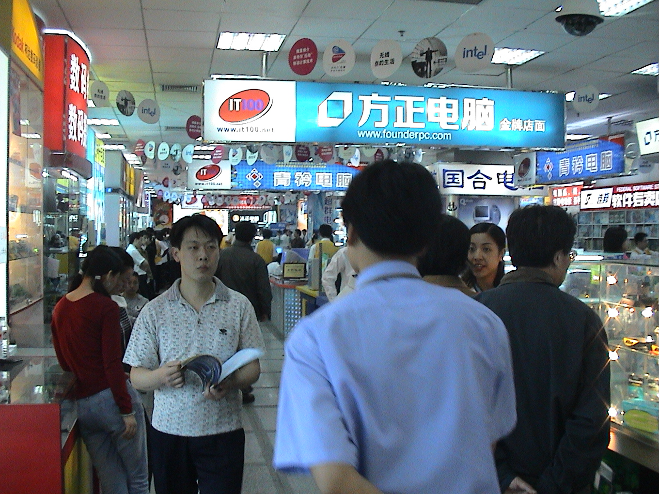 The 海龙大厦一层 section of Hailong Market, one of five major electronics markets in Zhongguancun, Beijing.